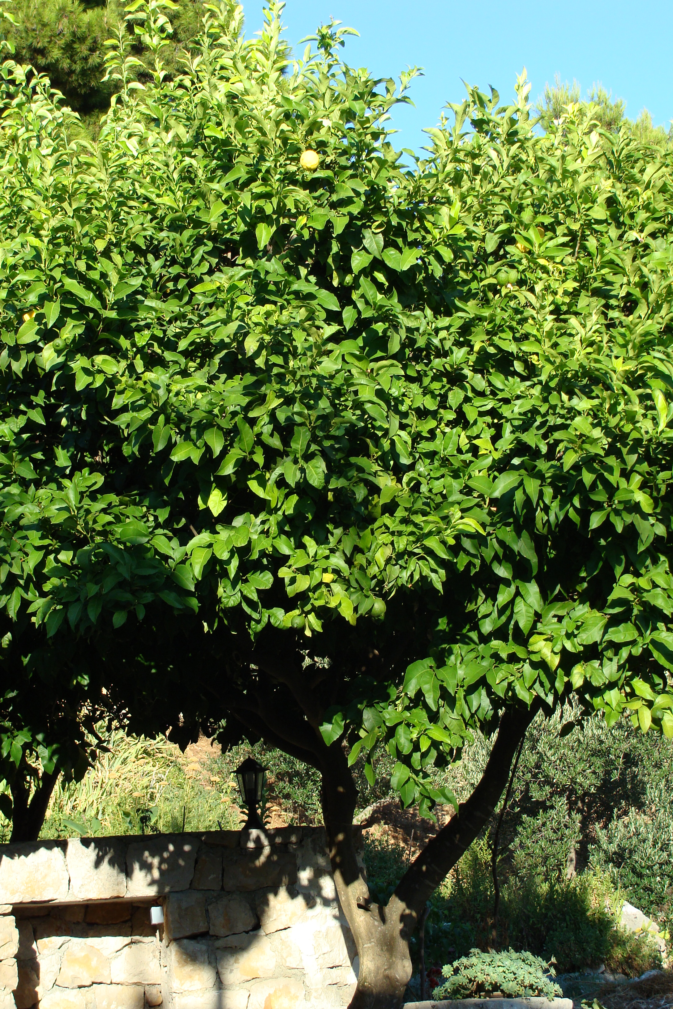 Lemon Tree